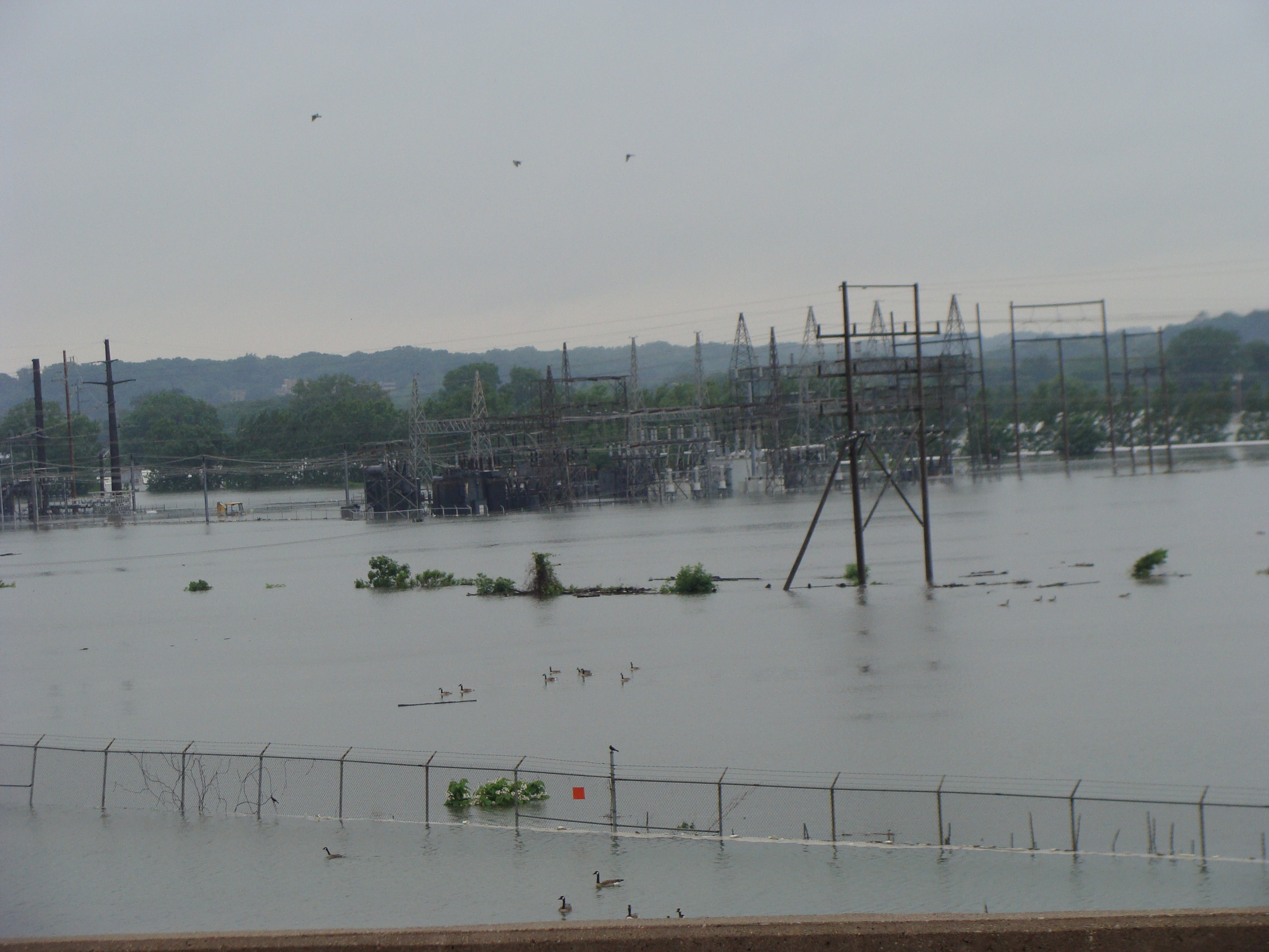 An electrical substation underwater near downtown in Cedar Rapids, Iowa, due to the flooding of 2008.